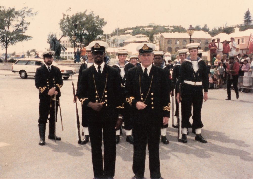 The Guard of TS Admiral Somers, Bermuda Sea Cadet Corps, on Ordnance Island, St. George's, Bermuda (alias The Somers Isles). The statue in the Major Donald Henry Burns Memorial Park, behind the guard, is of Admiral Sir George Somers, founder of Bermuda and namesake of the cadets' Training ship. It was unveiled in 1984 by Princess Margaret as part of the celebrations of the 375th Anniversary of Bermuda's founding. The Guard paraded for the arrival of American sailor Dodge Morgan as he returned to Bermuda, completing the fastest solo westward-circumnavigation of the world (afloat) aboard his boat, the American Promise. Senior officer shown is the late Lt. Commander Edwards, RNR (SCC). Location: Ordnance Island, St. George's, Bermuda